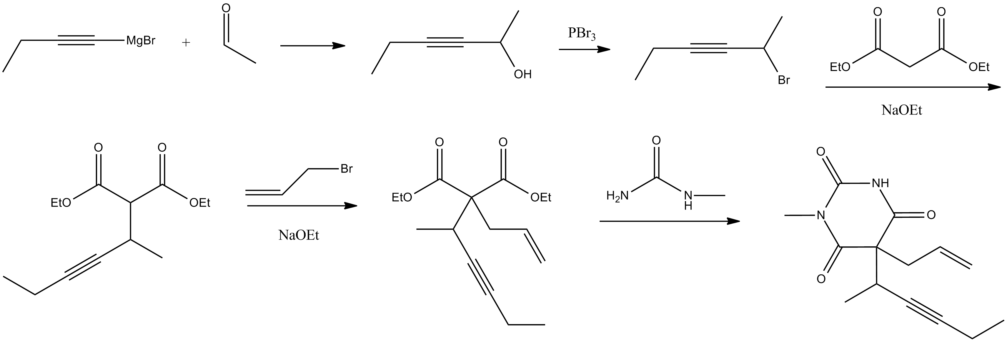 A synthetic scheme for the production of methohexital is disclosed.